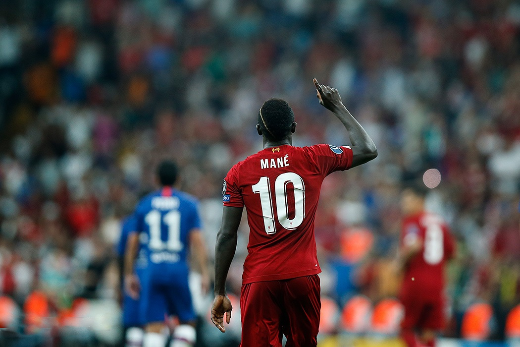 Liverpool vs. Chelsea, 2019 UEFA Super Cup